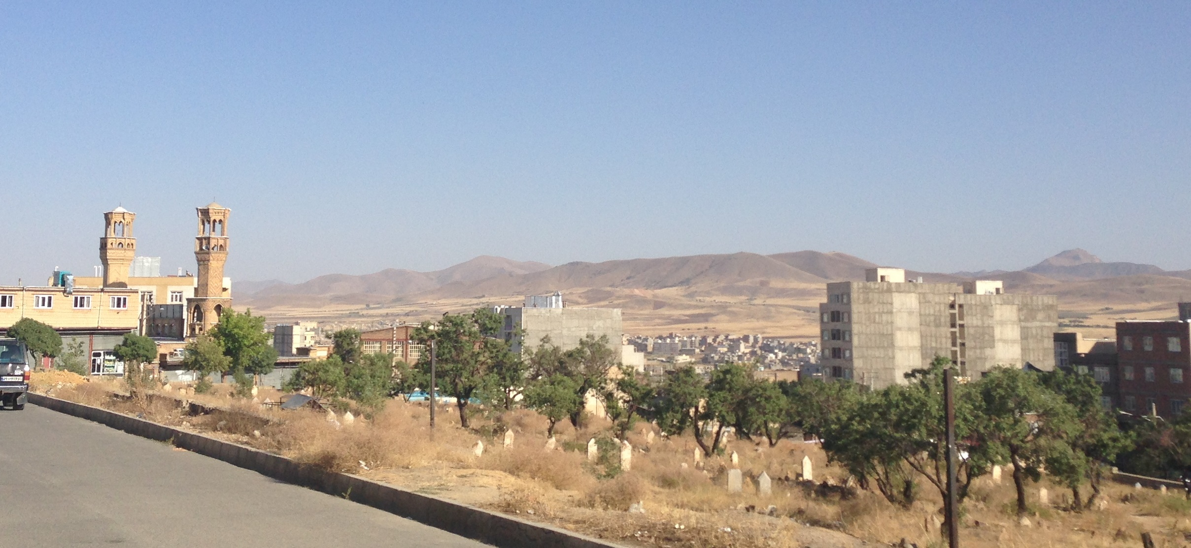 Omar Mosque in Saqqez, Kurdistan Province, Iran کوردی: مزگەوتی حەزرەتی عومەر لە سەقز